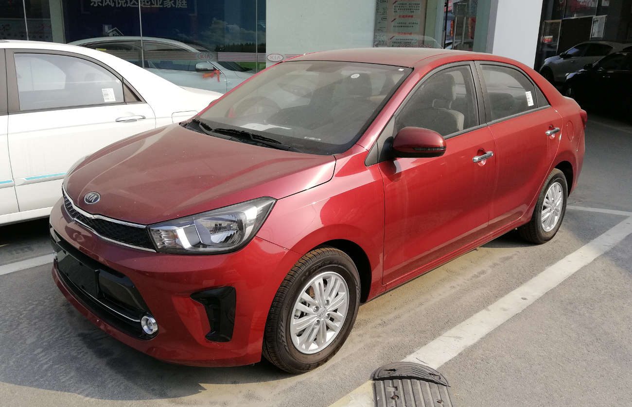 Kia Pegas photographed in Guangzhou, Guangdong province, China.